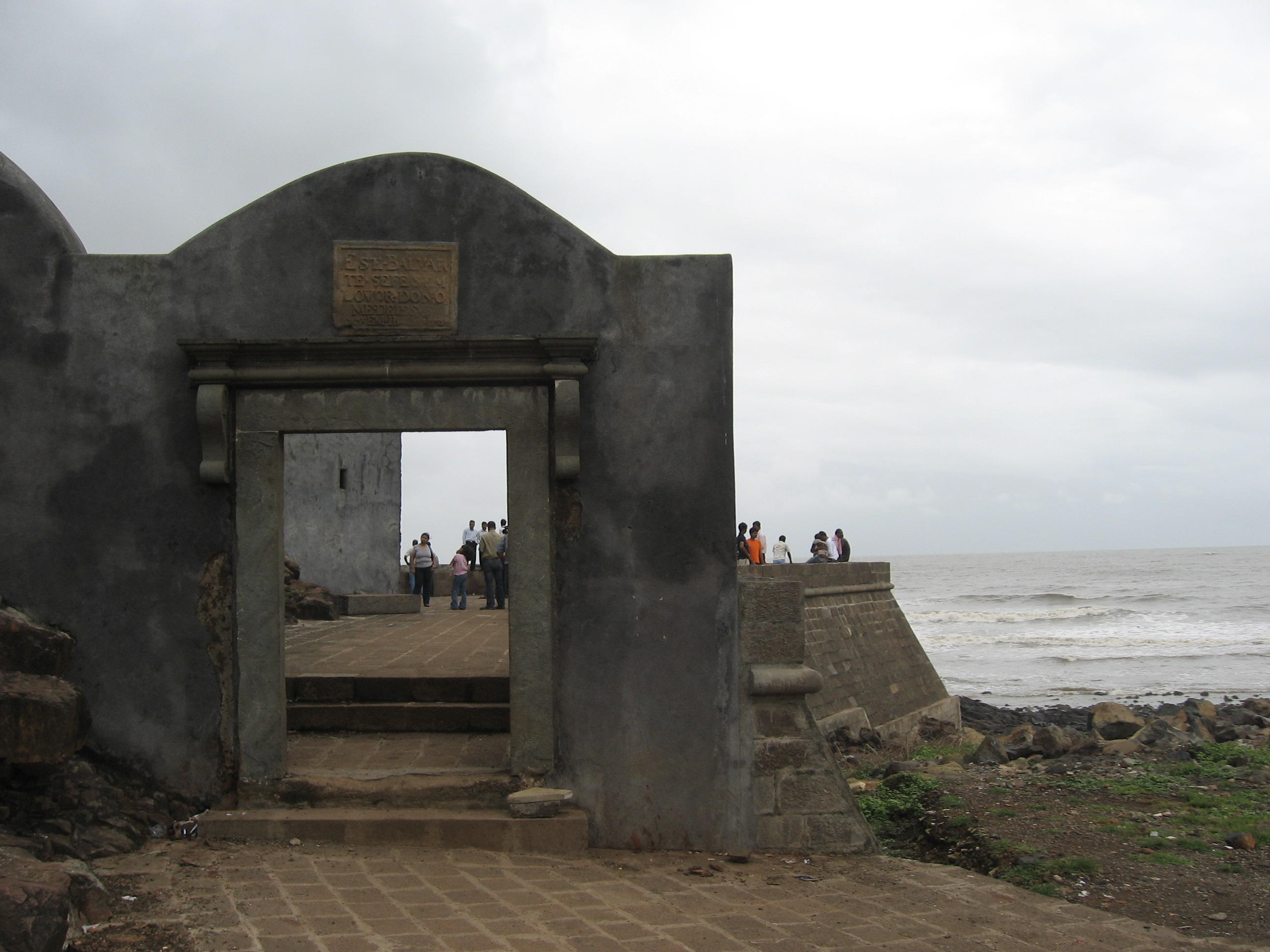 Castella de Aguada a Portuguese fort in Bandra, Mumbai, now in ruins. The fort overlooks the Mahim Bay